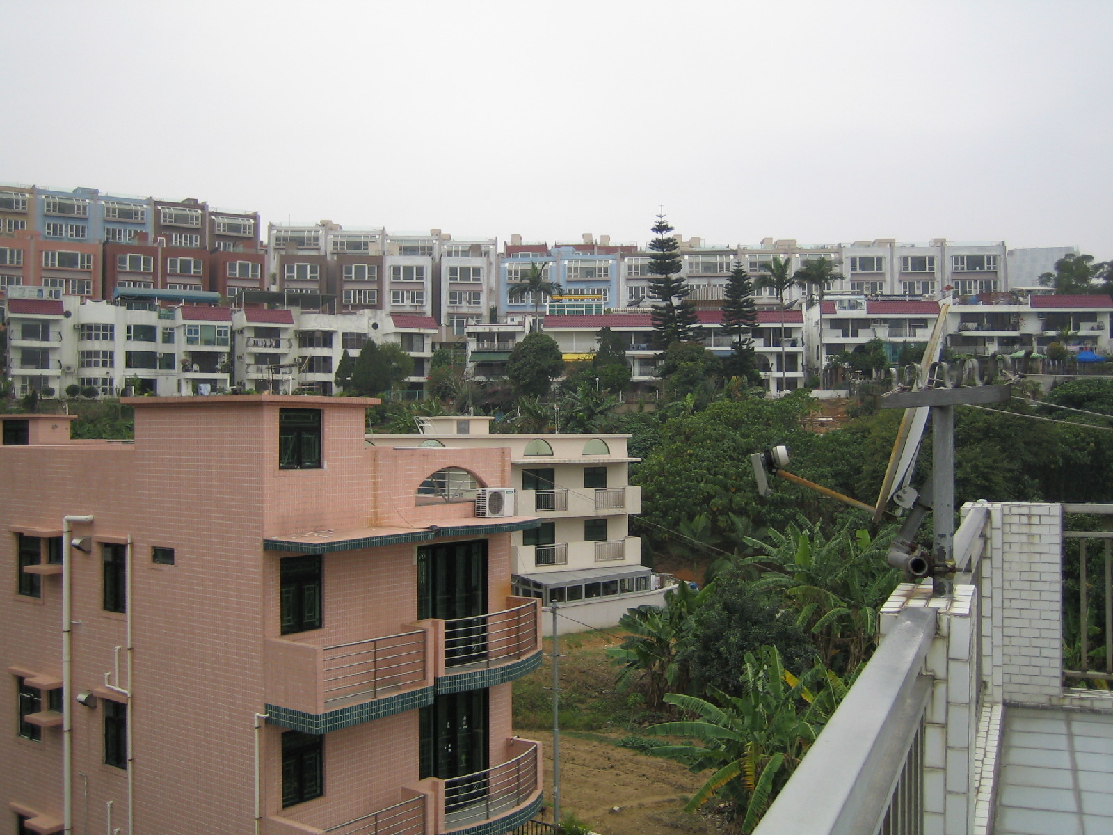 Sha Lan Tsuen, a village in Tai Po District, Hong Kong. The upper range of buildings on the picture belong to the Beverly Hills private housing estate